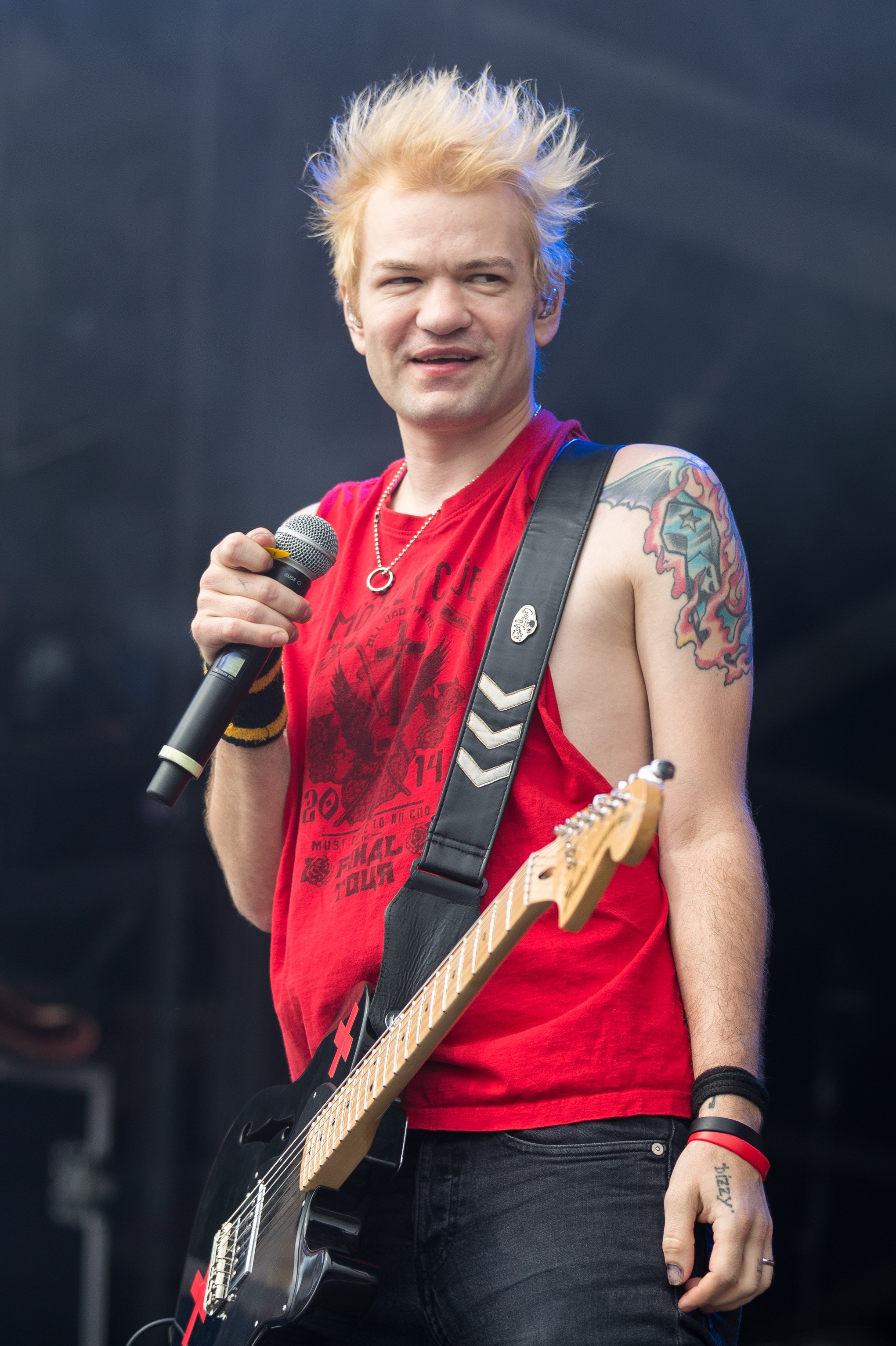 A cropped version of File:Sum 41 - 2017154162559 2017-06-03 Rock am Ring - Sven - 1D X II - 0944 - AK8I8786.jpg